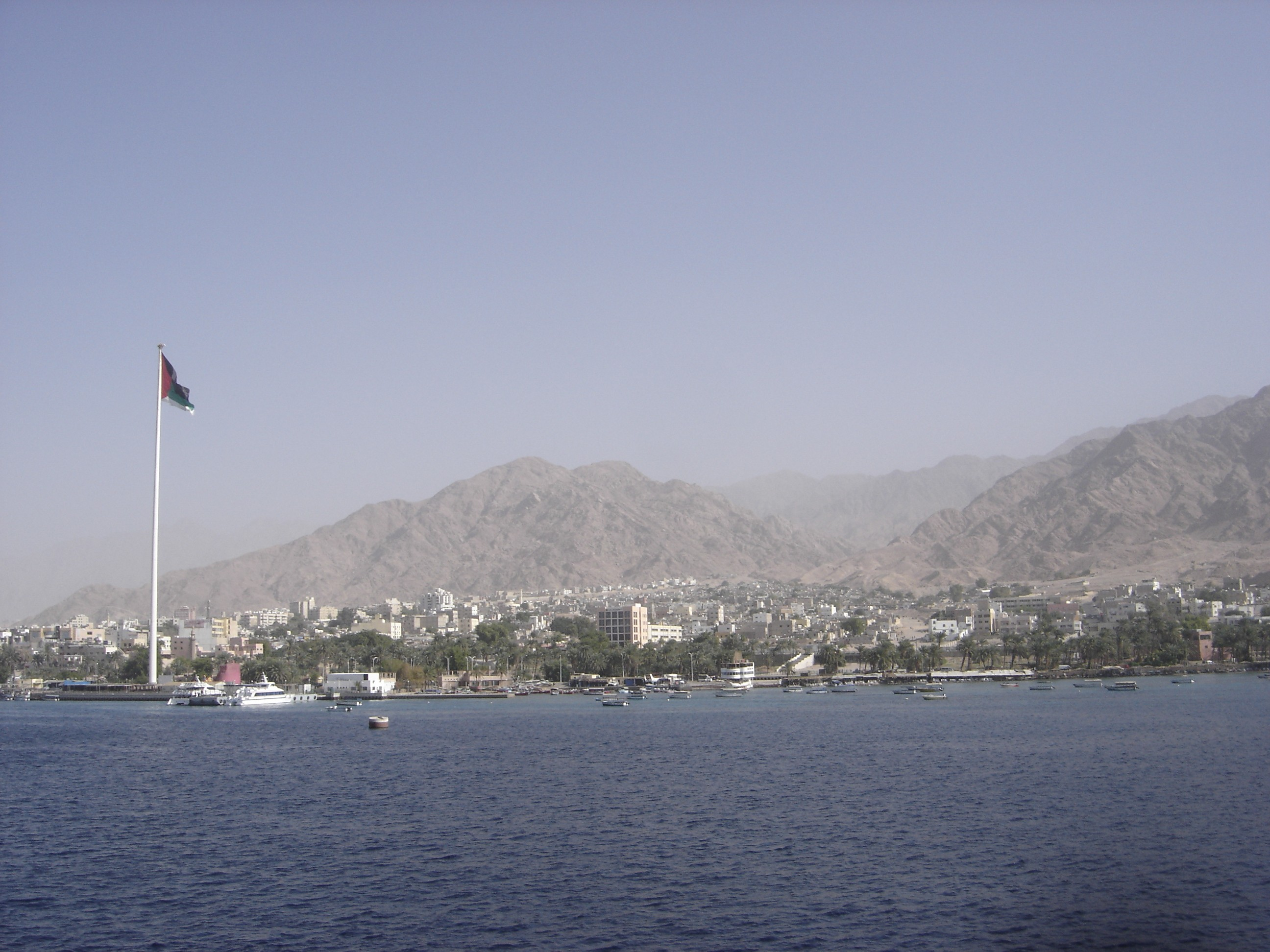 Aqaba vue de la mer